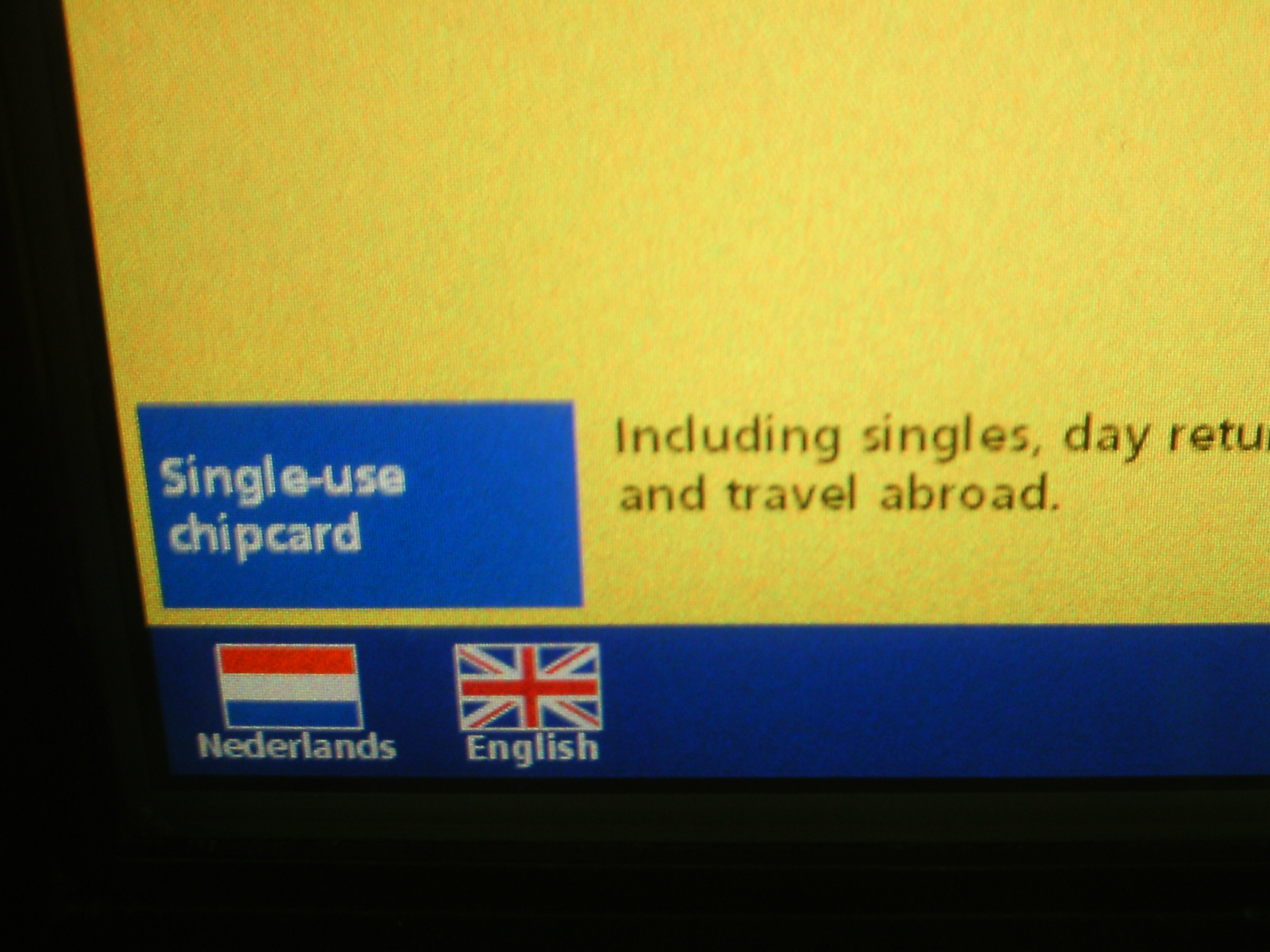 For occasional train travelers, such as tourists etc., ticket vending machines at trainstations offer the possibility to obtain a disposable OV-chipcard, comparable to the old paper singles and returns, for the fare price plus one euro.